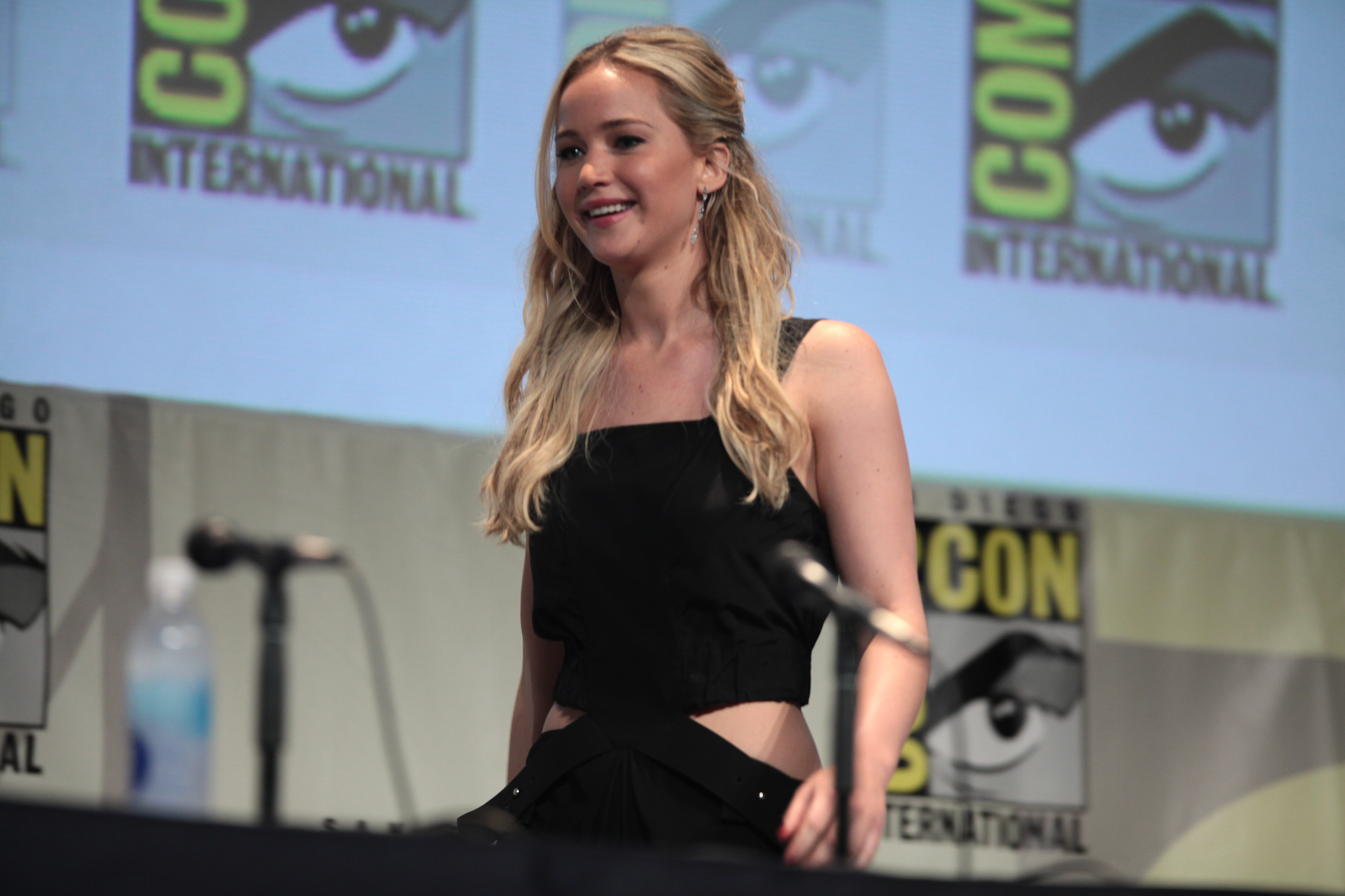 Jennifer Lawrence speaking at the 2015 San Diego Comic Con International, for "The Hunger Games: Mockingjay Part 2", at the San Diego Convention Center in San Diego, California.